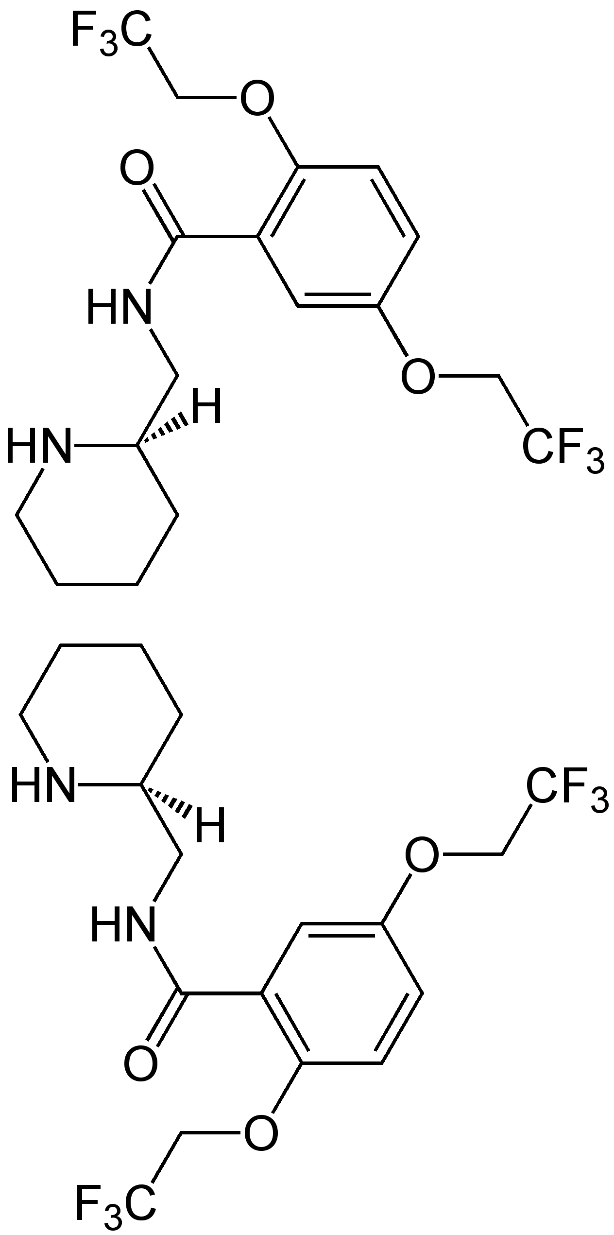 (±)-Flenaicide_Structural_Formulae